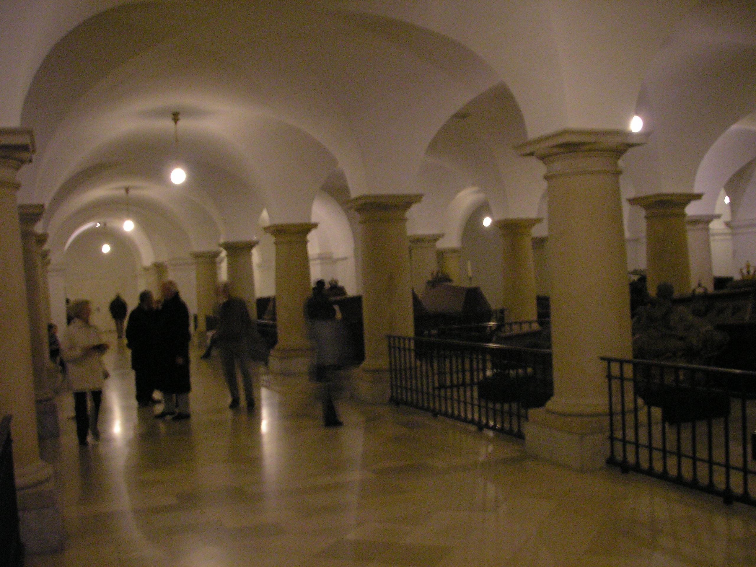 Description: View of royal coffins at the Hohenzollern crypt at Berliner Dom. Source: self-made, I release it into the public domain. Gryffindor 15:35, 11 April 2006 (UTC)